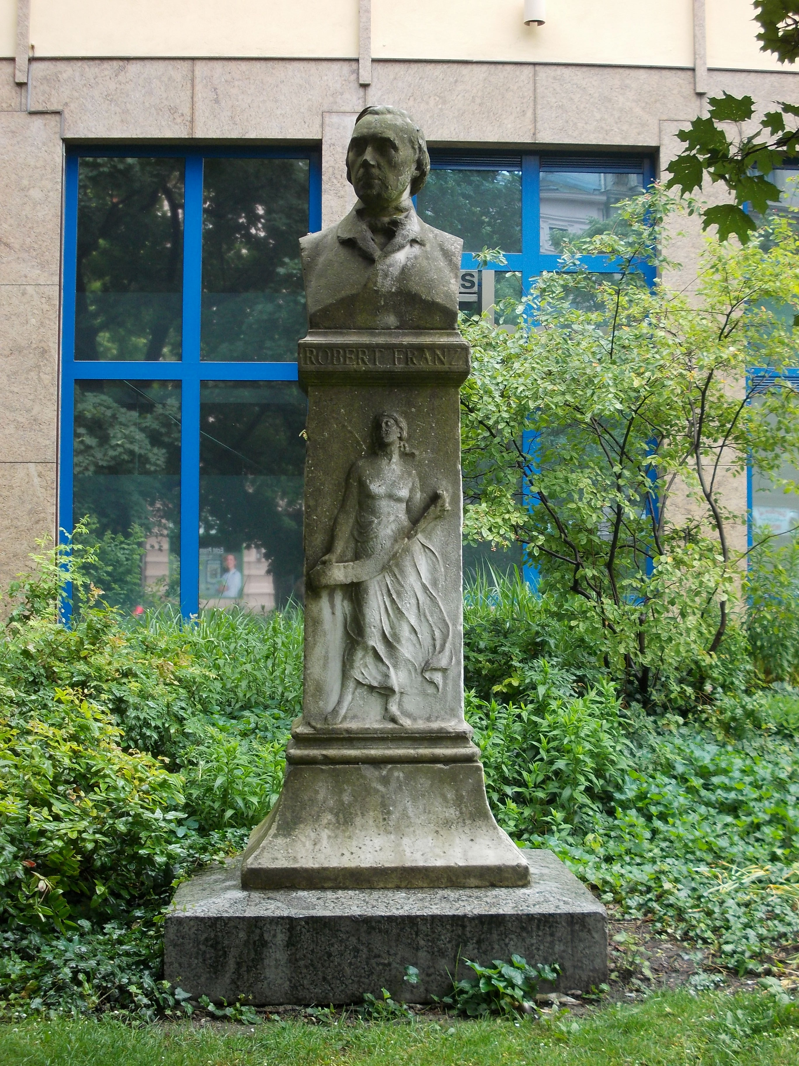 Robert Franz Memorial in Halle (Saale), Saxony-Anhalt